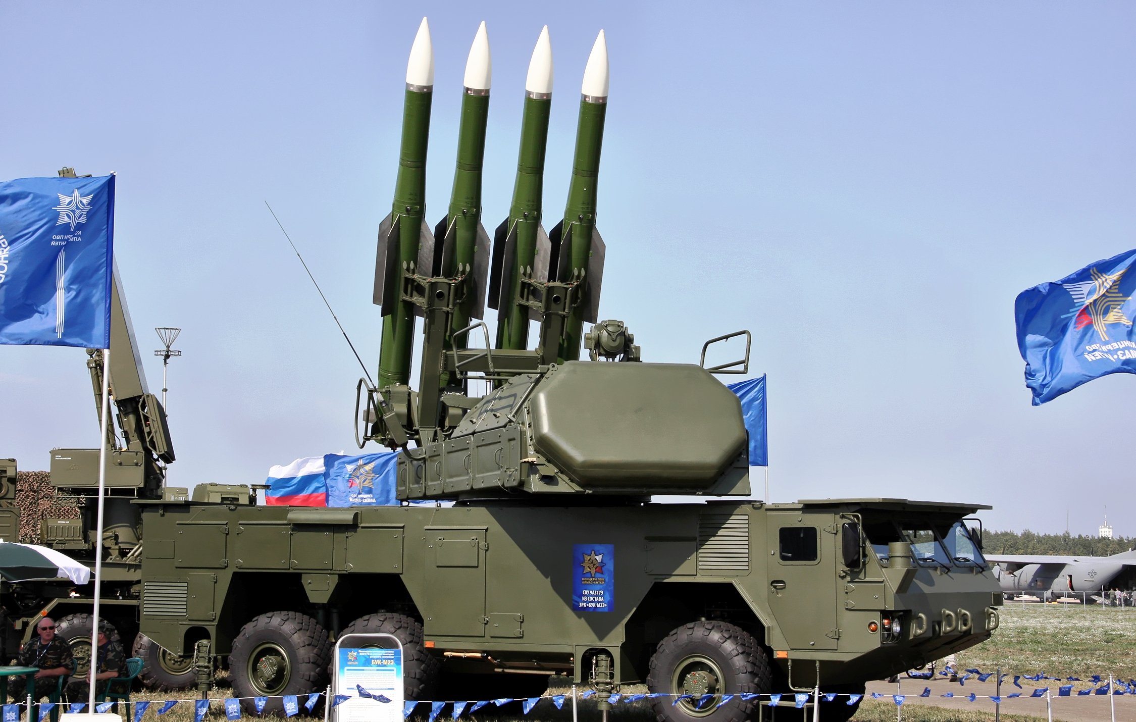 9A317E transporter erector launcher and radar from Buk-M2E missile system at MAKS-2011.